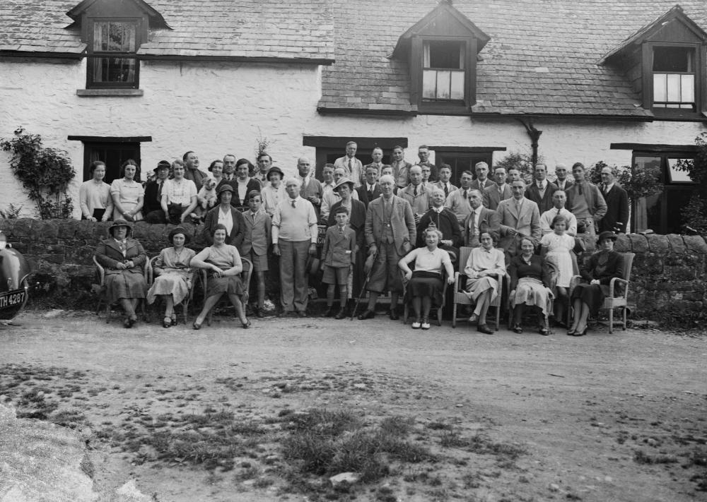 Abstract: Group of gentlemen and women golfers, Builth Wells Golf Club